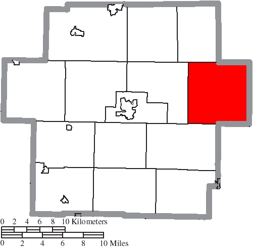 Map of the municipal and township boundaries of Carroll County, Ohio, United States, as of the 2000 census, with the location of Fox Township highlighted. Township borders are shown only in unincorporated areas in order to differentiate incorporated and unincorporated areas more clearly.